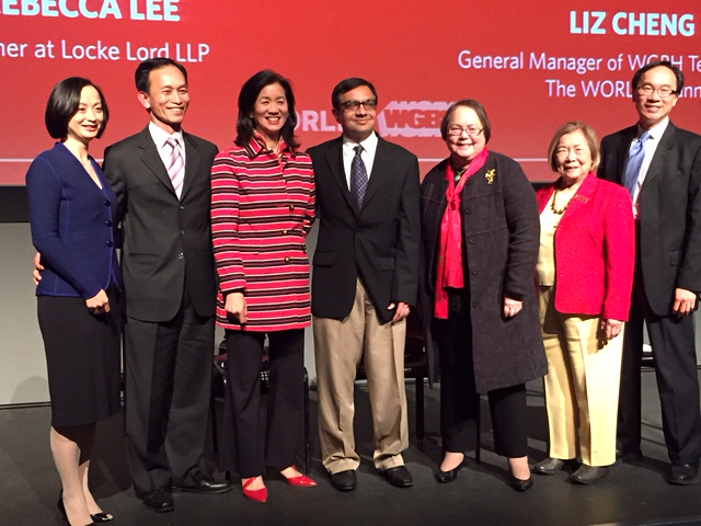 Tayur at Asian Pacific American Heritage Month 2015